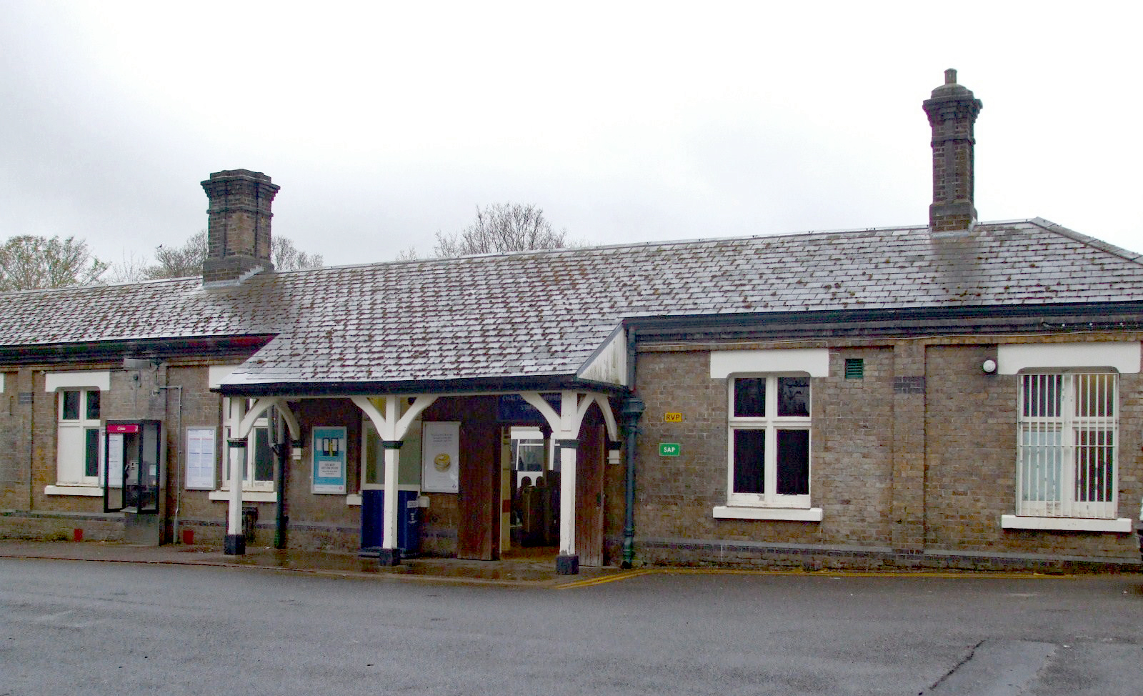 Chalfont & Latimer station building